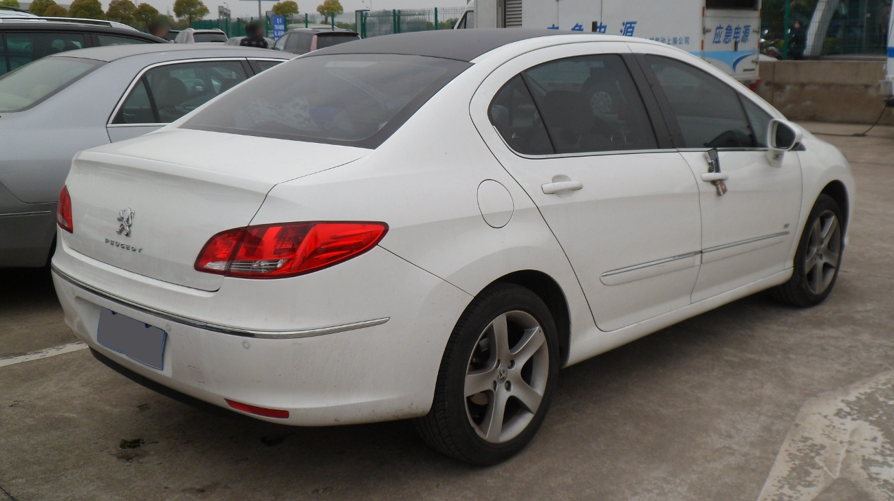 Peugeot 408 photographed in Anting, Shanghai municipality, China.